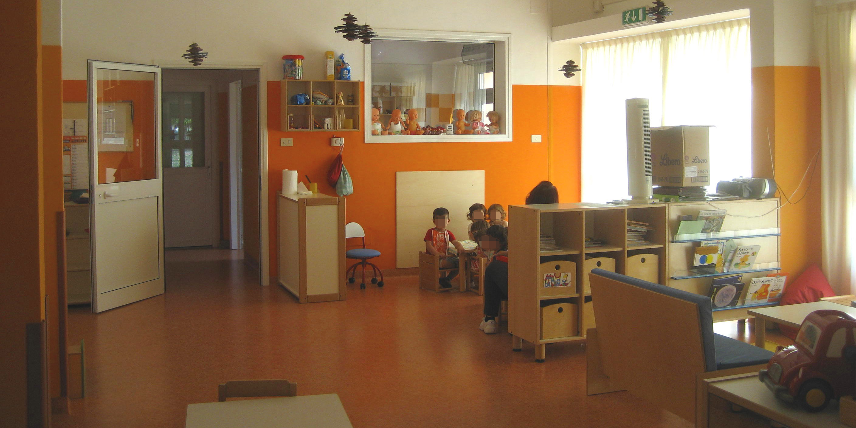 The orange classroom in the new "Cucciolo" nursery-school in Fontevivo (Parma, Italy).